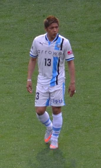 Yoshito Okubo during the Tamagawa Clasico - the match between FC Tokyo and Kawasaki Frontale - played at Ajinomoto Stadium 16th April 2016.